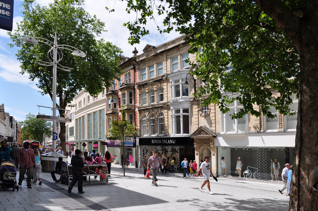 Summer on Queen Street - Cardiff